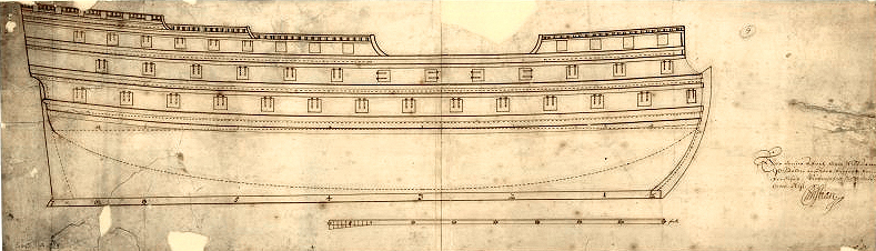 Konstruktionstegning til Dannebroge med Christian 5.s approbation